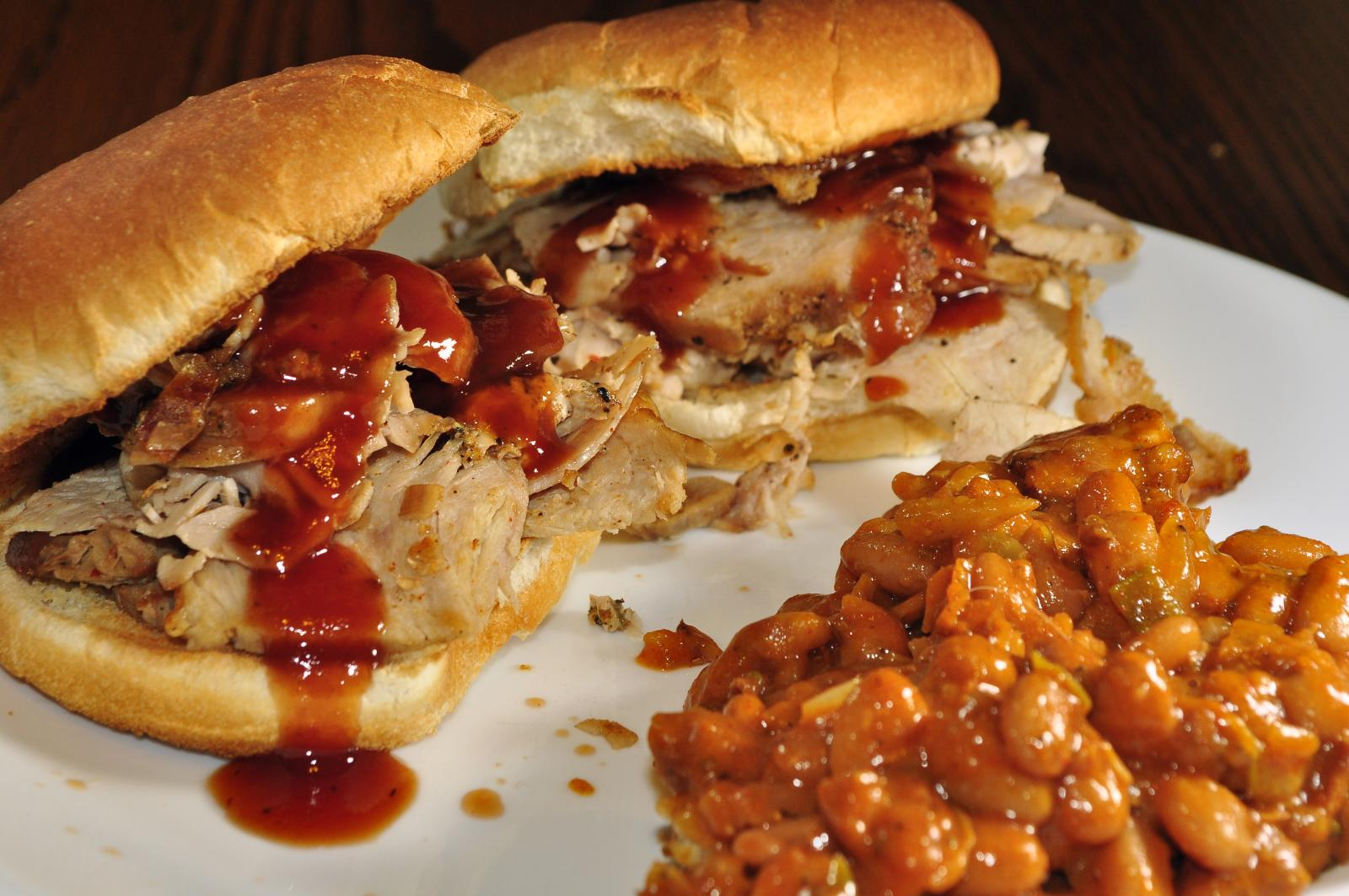 Barbecue pork sandwiches with a side dish of barbecue beans